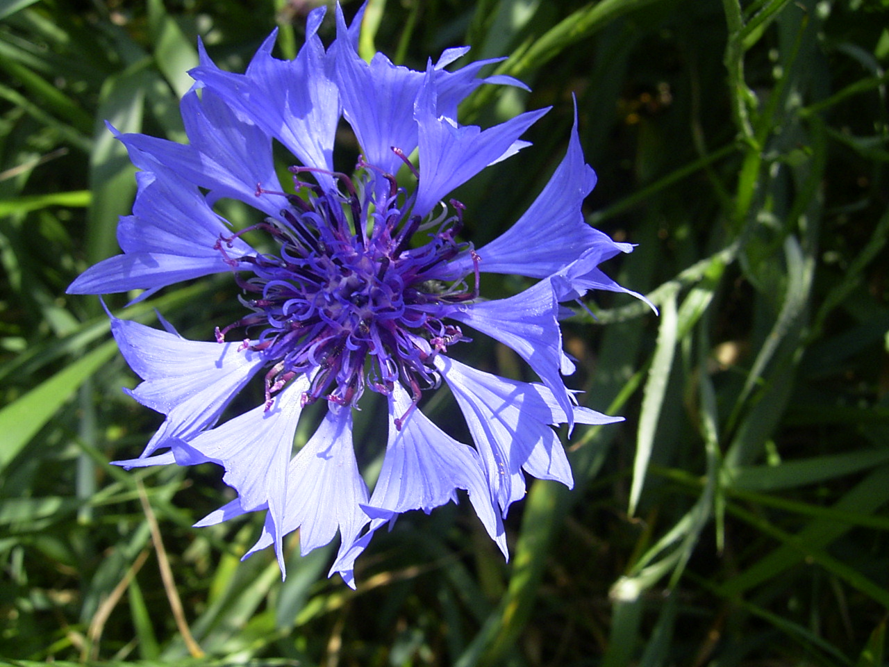 Cornflower in Gouda, the Netherlands